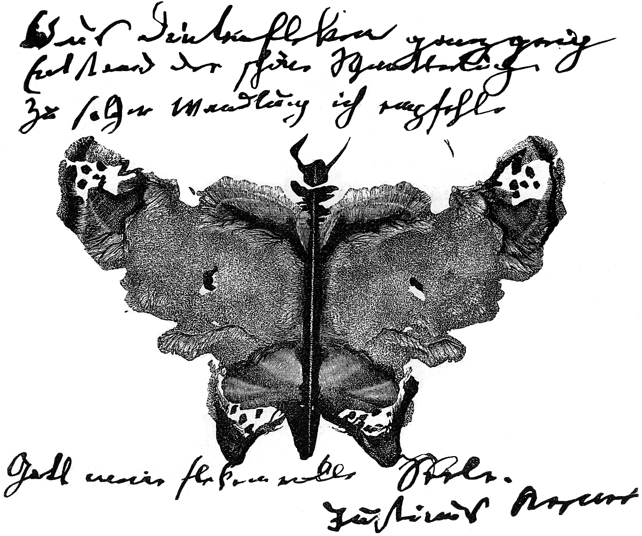 An autograph with a so-called ‘Klecksographie’ from Justinus Kerner (1786—1862), German physician and poet